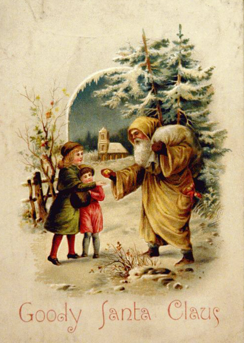 Cover of "Goody Santa Claus" dated 1889. Public domain.